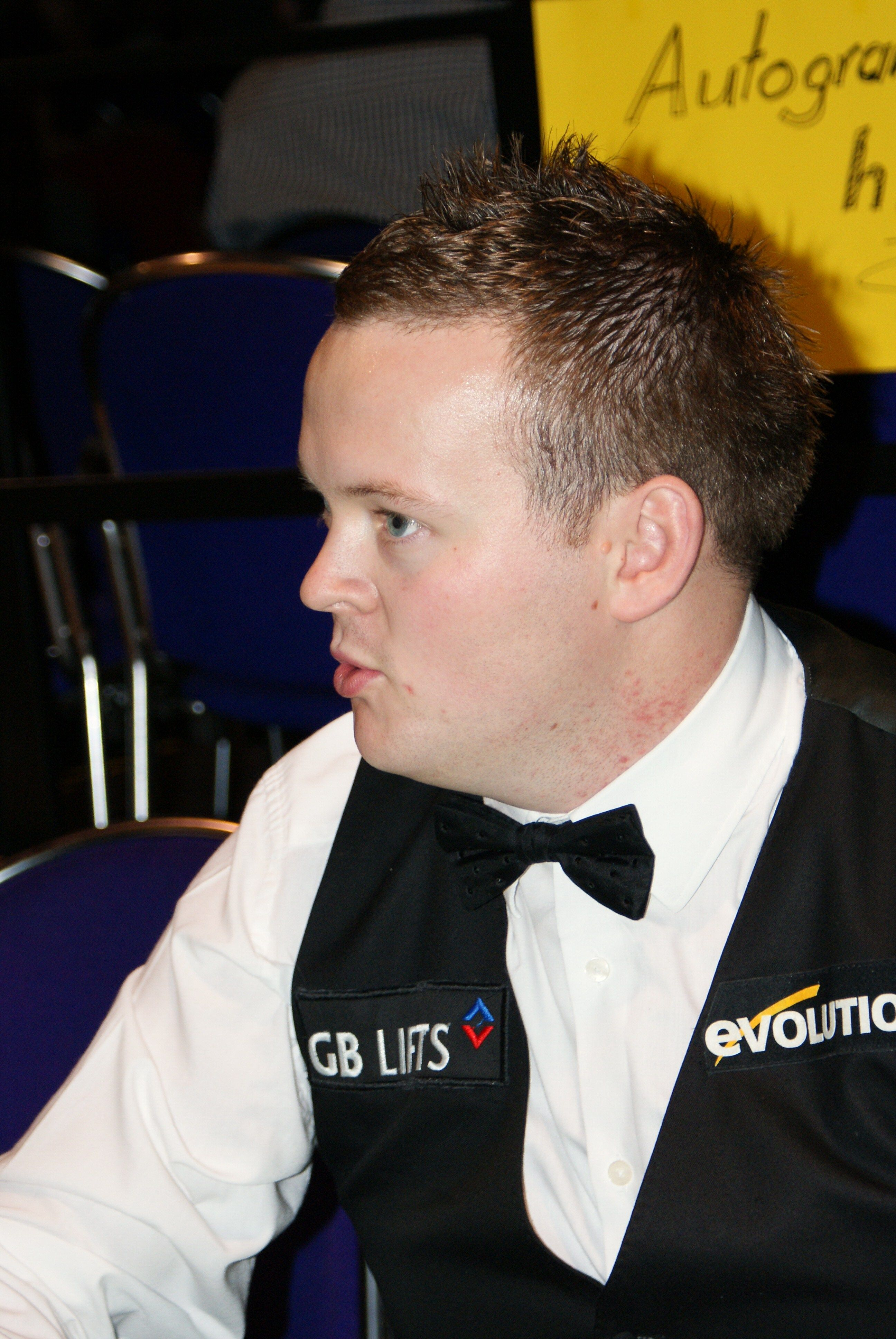 Shaun Murphy at the Paul Hunter Classic 2008